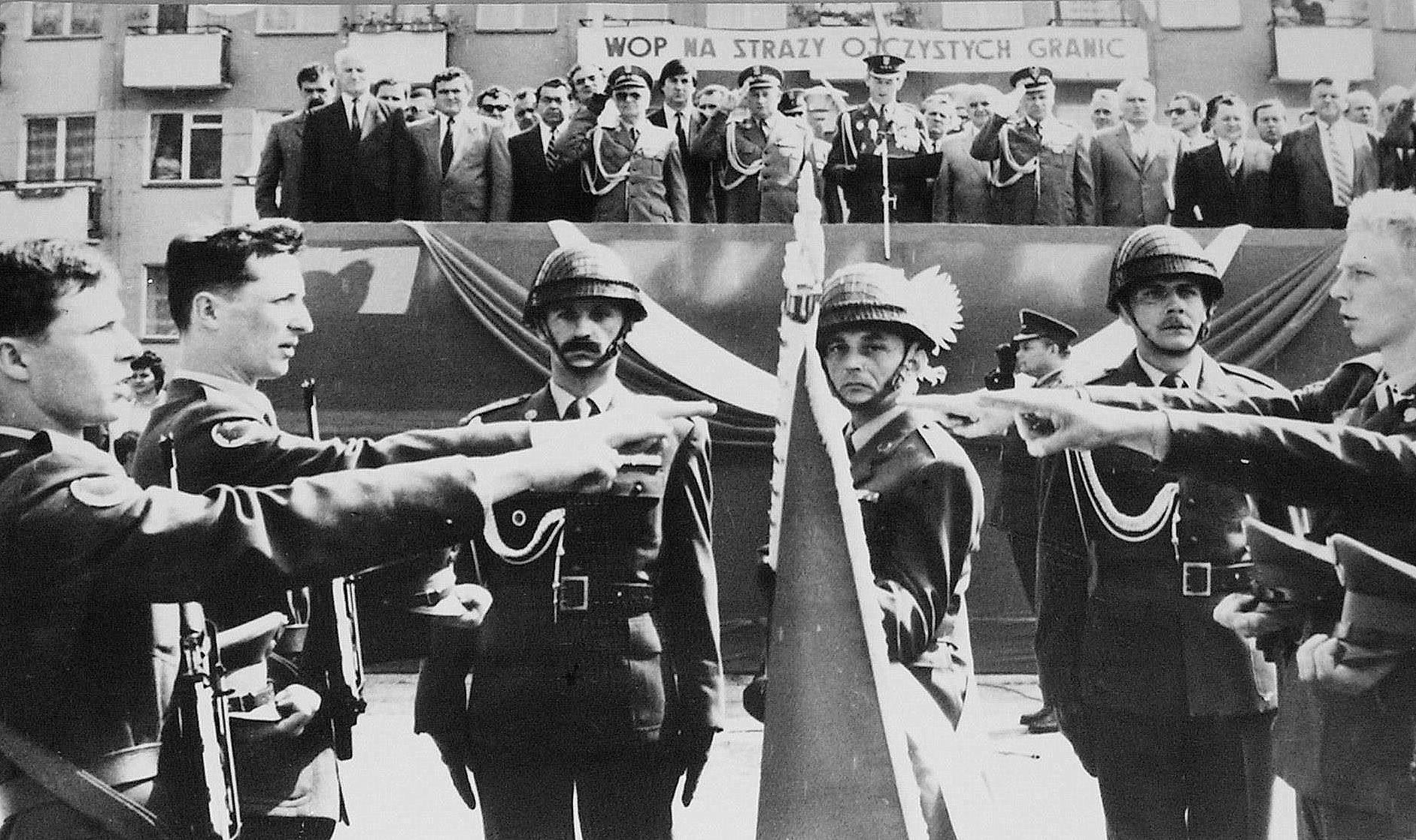 Border Protection Forces in Racibórz